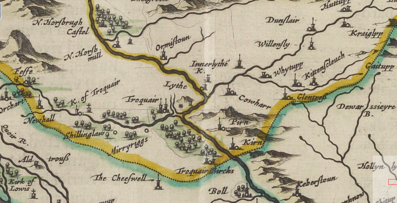 1654 Map of Innerleithen area